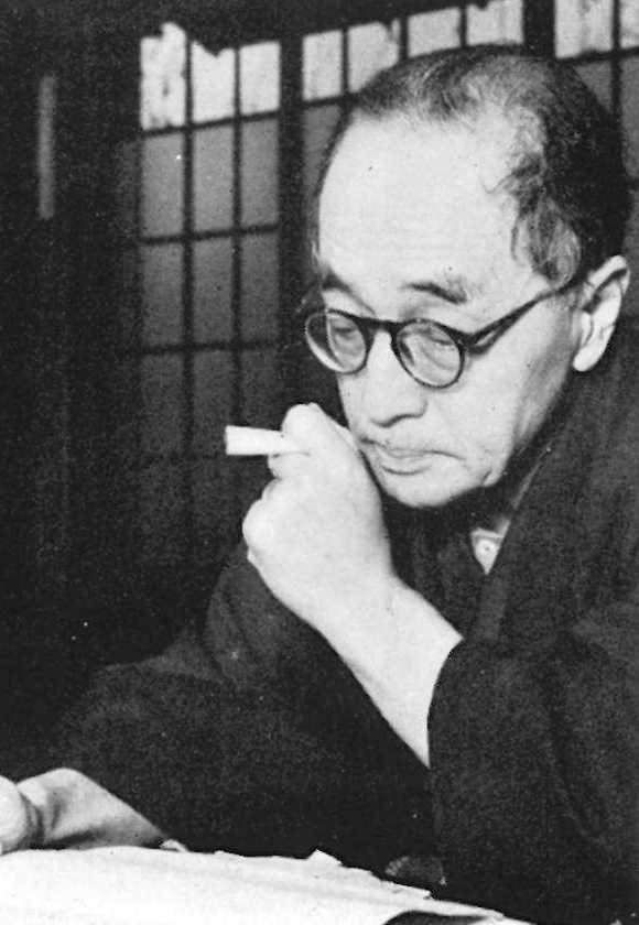 Konosuke Hinatsu